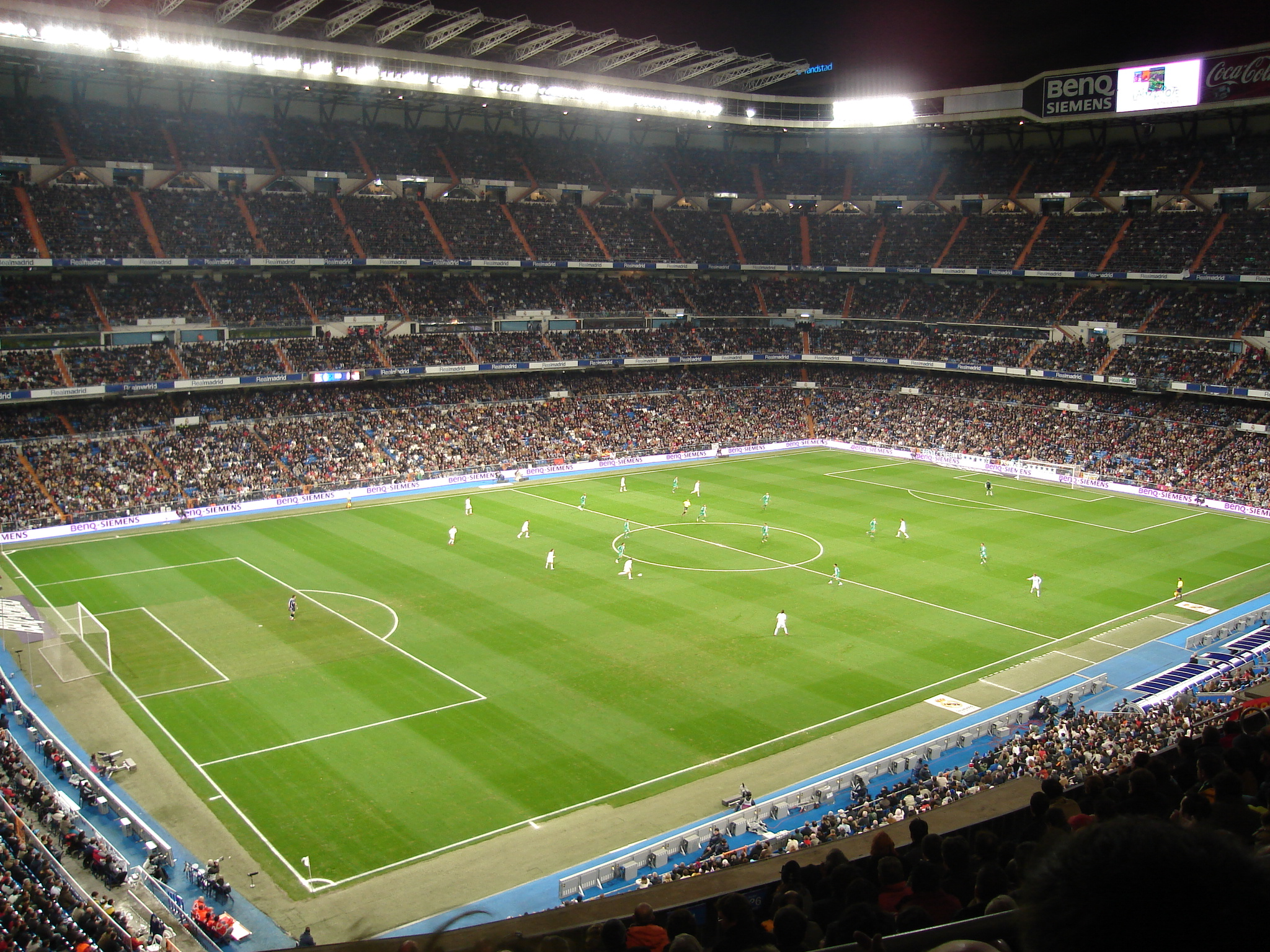 Real Madrid in 2007.